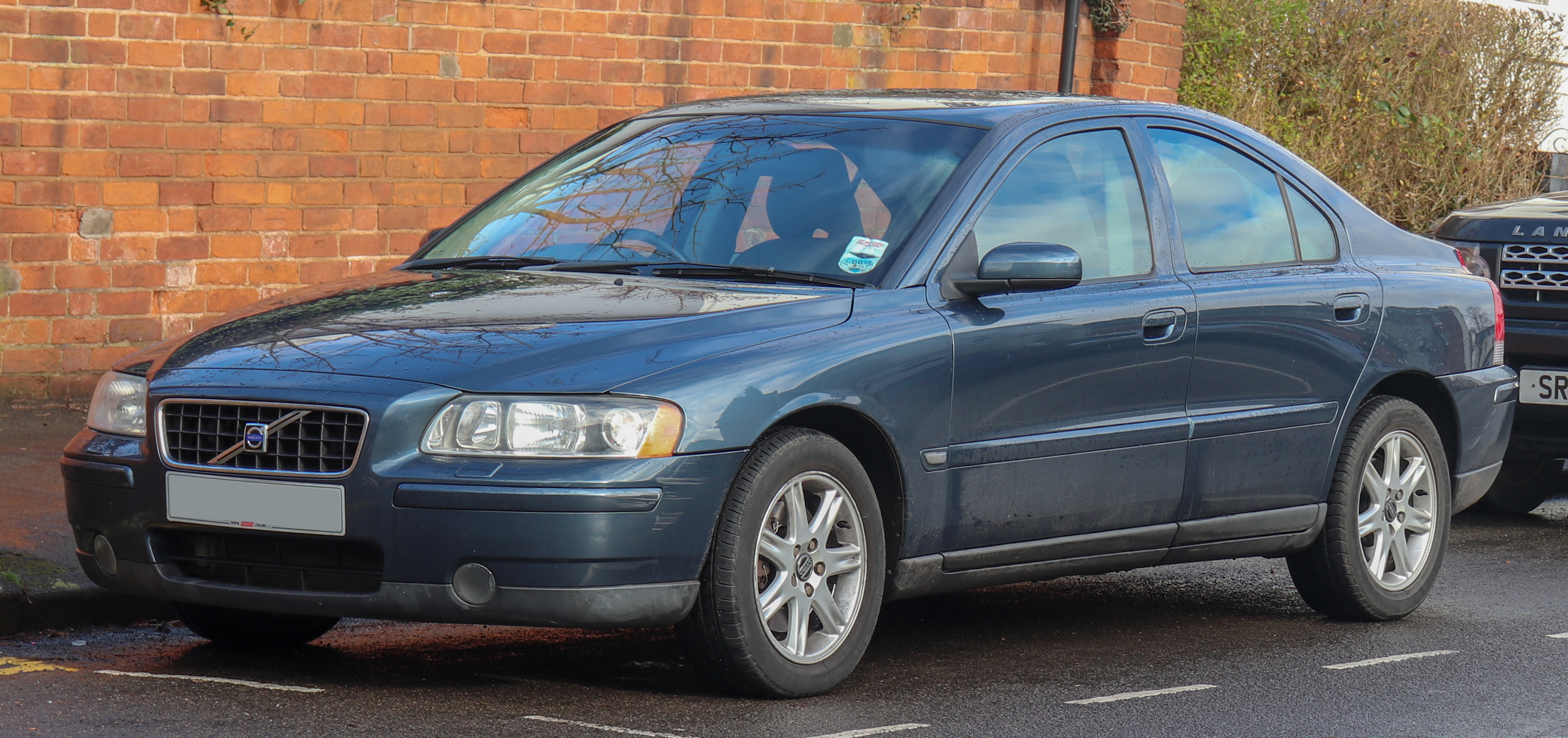 2005 Volvo S60 S T 2.0 Front Taken in Leamington Spa